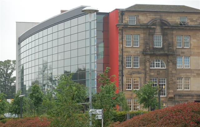 Business centre This in Kilncraig Mills Business centre which was formed by the merging of two former textiles mills.